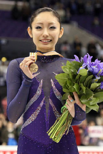 Miki Ando (JPN) during the medals ceremony at the 2009 World Figure Skating Championships. She won the bronze medal.